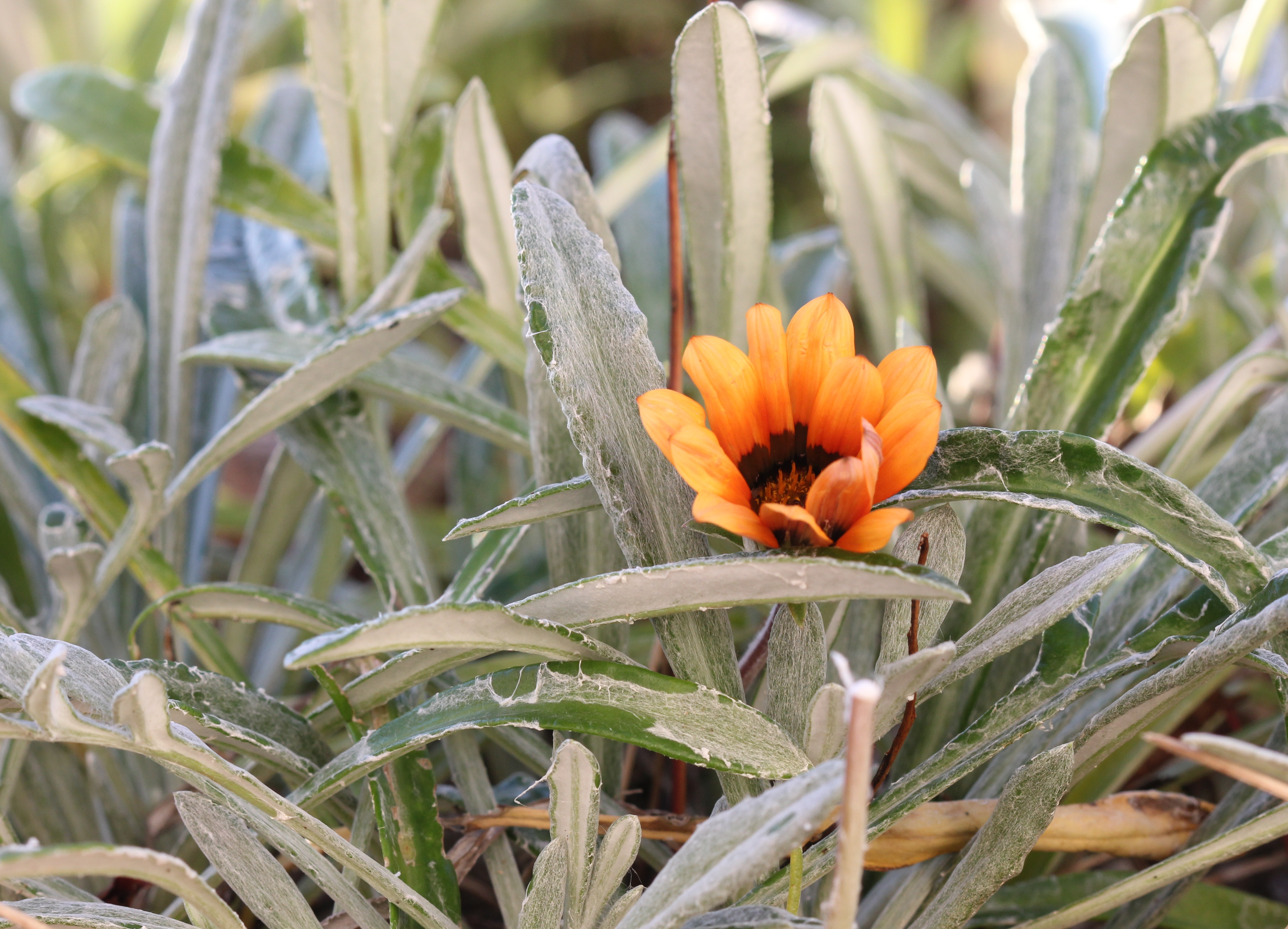 Good example of arachnoid leaves, covered with cobwebby hairs. The unidentified Gazania growing in a garden might be a hybrid.